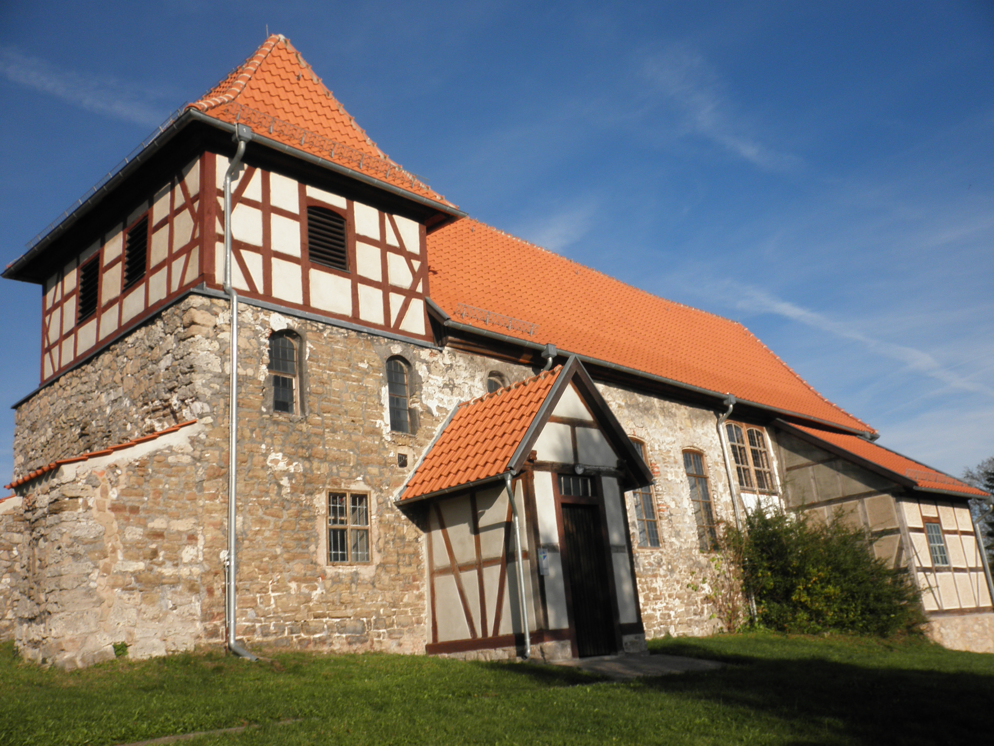 Church in Branderode (Hohenstein) in Thuringia